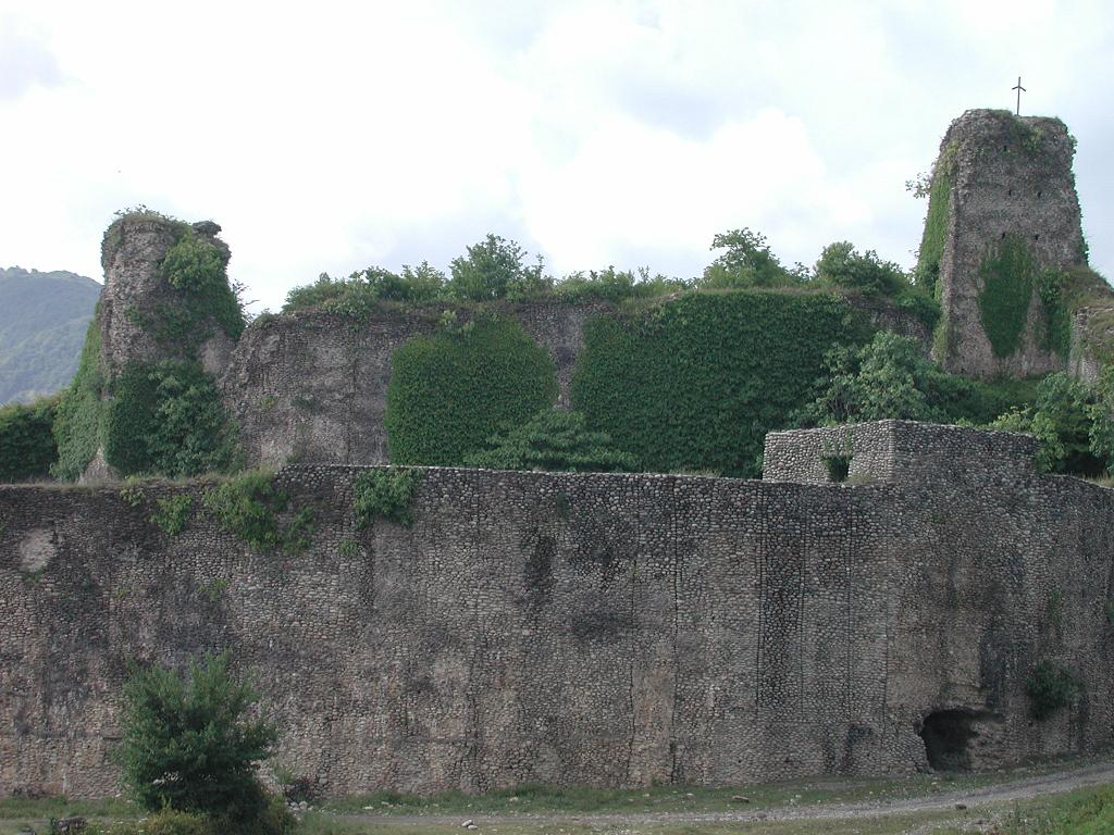 Senaki, Megrelia, Georgia Mingrelian: ჯიხაქვინჯ